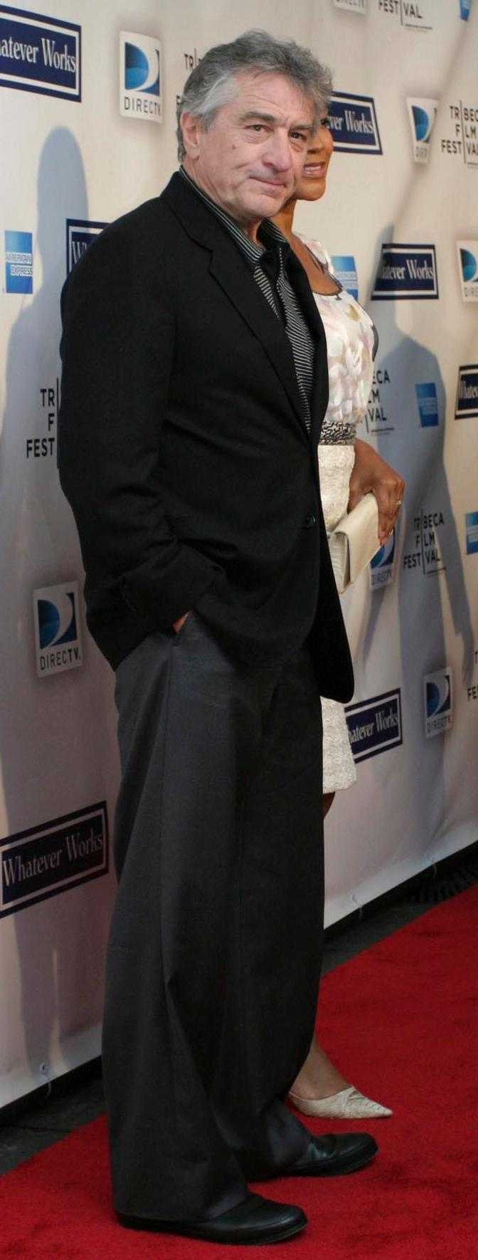 Robert De Niro and Grace Hightower – Tribeca Film Festival "Whatever Works" Premiere.